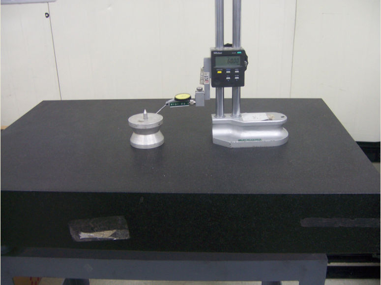 Granite bed as a plane of reference during measurement with Height Gage